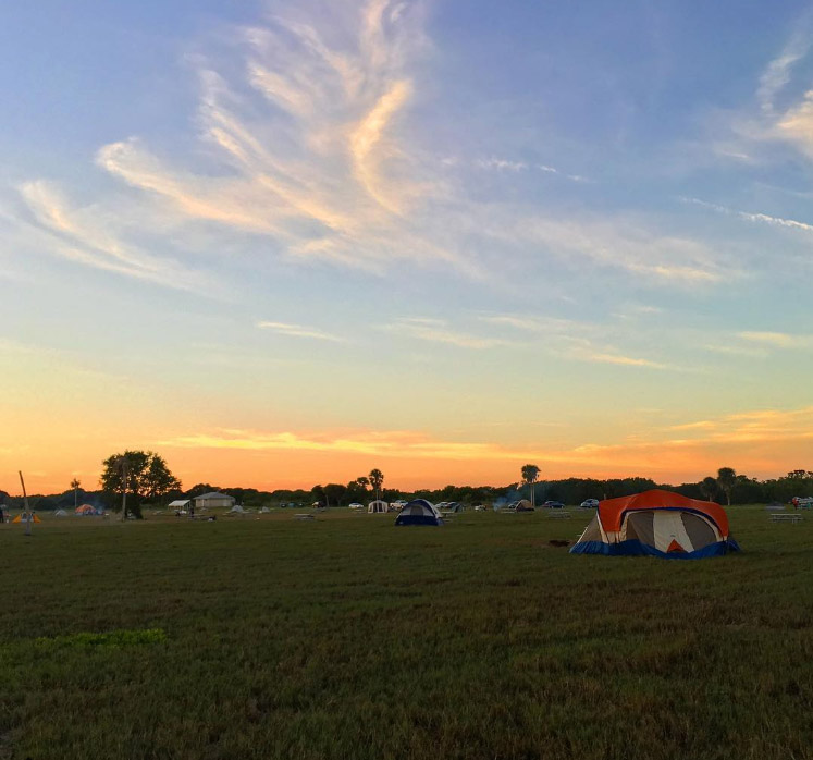 Hundreds of campers in the Flamingo Amphitheater - bay front camping area that is popular during the Christmas-New Year Holidays.